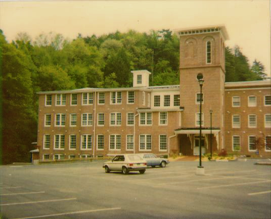 The former firehouse factory at 75 Glen Road, Sandy Hook CT, USA on the banks of the Pootatuck river.